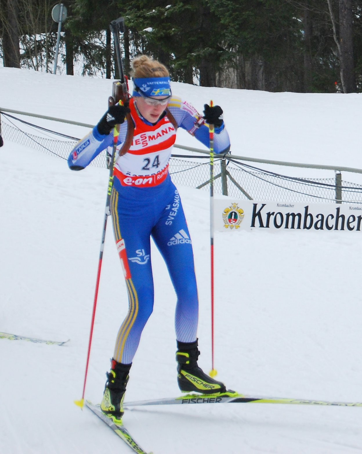 Swedish biathlete Helena Jonsson during the World Championships in Östersund 2008.